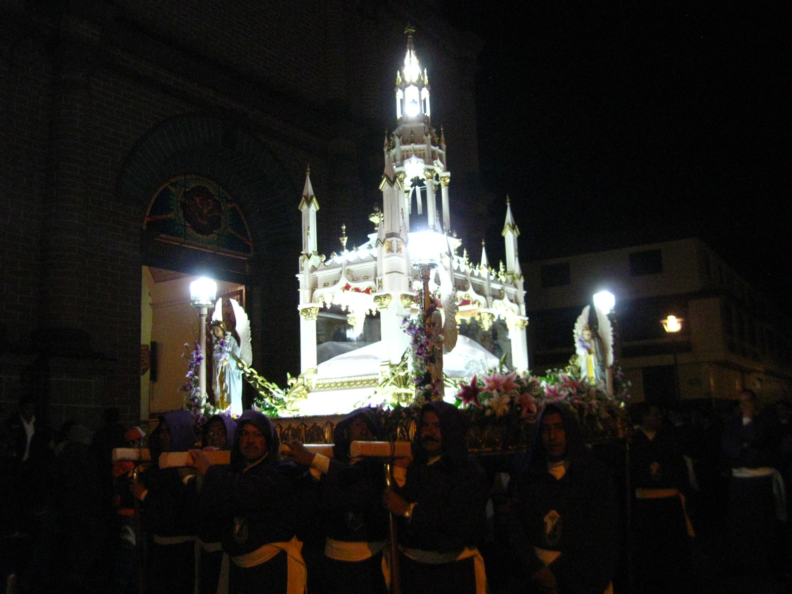 Procesión Viernes Santo 4